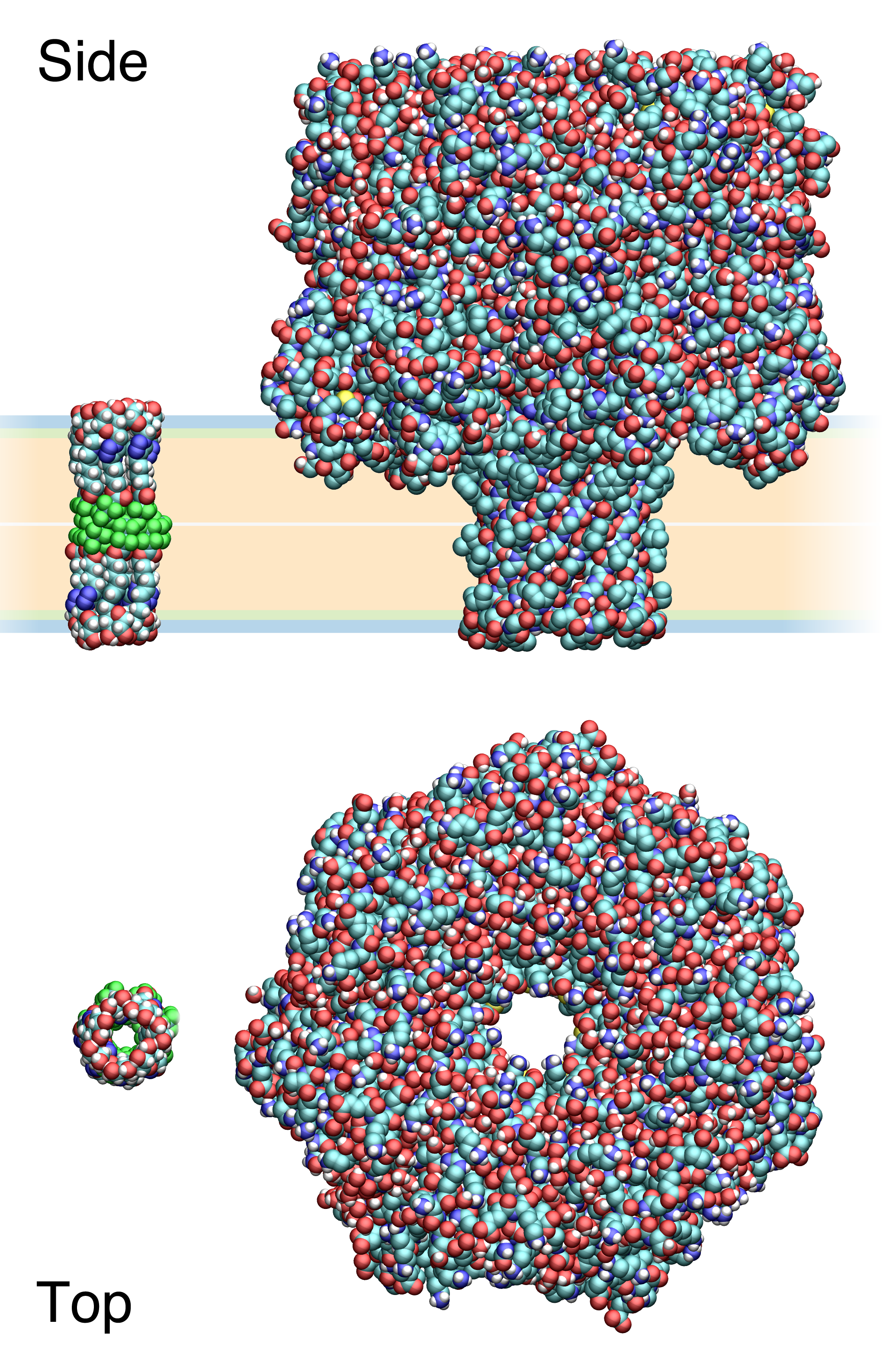 Size comparison of a synthetic ion channel (postulated dimer of a cyclodextrin half-channel), and a natural channel (hemolysin). Hemolysin structure from PDB 7AHL; cyclodextrin channel based on a combination of cyclodextrin crystal structure and guided MD based modelling (MMFF94).